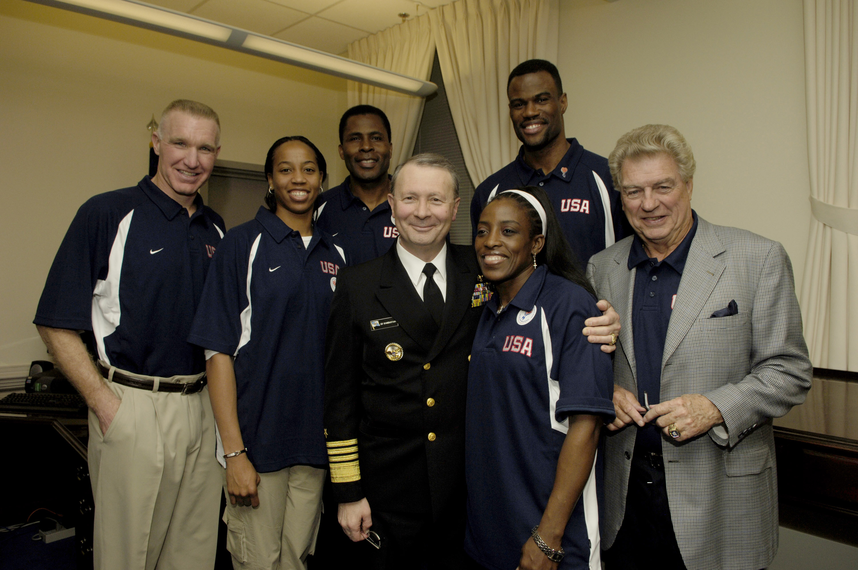 Vice Chairman of the Joint Chiefs of Staff Adm. Edmund G. Giambastiani Jr., U.S. Navy, poses for photos with members of Team USA in the Pentagon in Arlington, Va., on April 6, 2006. The basketball superstars are in the Pentagon to hold a special basketball clinic for children of deployed and active duty military members as part of April's "National Month of the Military Child." From left are: Chris Mullin, Chasity Melvin, Buck Williams, Giambastiani, Ruthie Bolton, David Robinson and Chuck Daly.